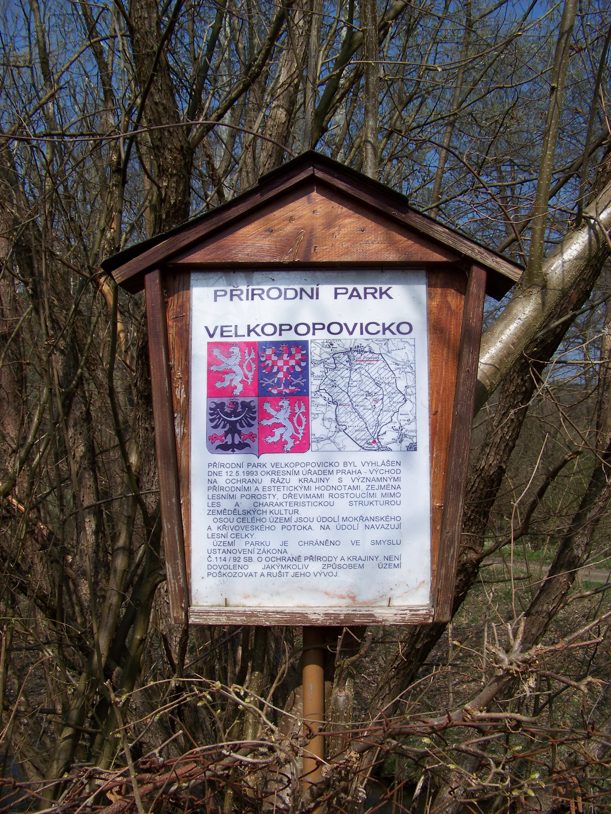 Řehenice, Benešov District, Central Bohemian Region, Czech Republic. An sign of Velkopopovicko Natural Park.